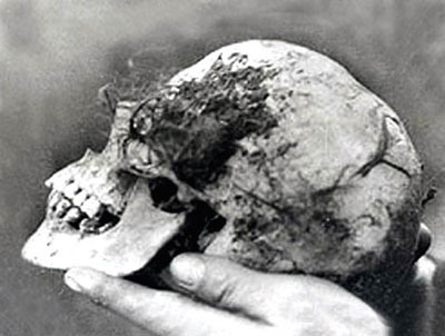 Skull of an unidentified murder victim found in Hagley in 1941.